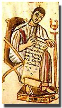 كاتب وعالم لاهوت مسيحي آشوري في القرن الثاني الميلادي.